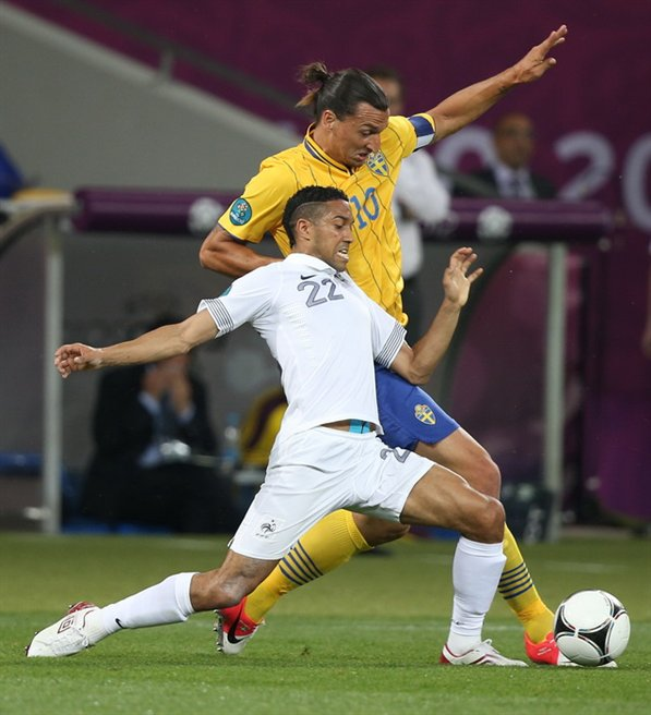 Gaël Clichy and Zlatan Ibrahimović at the Euro 2012 match Sweden-France